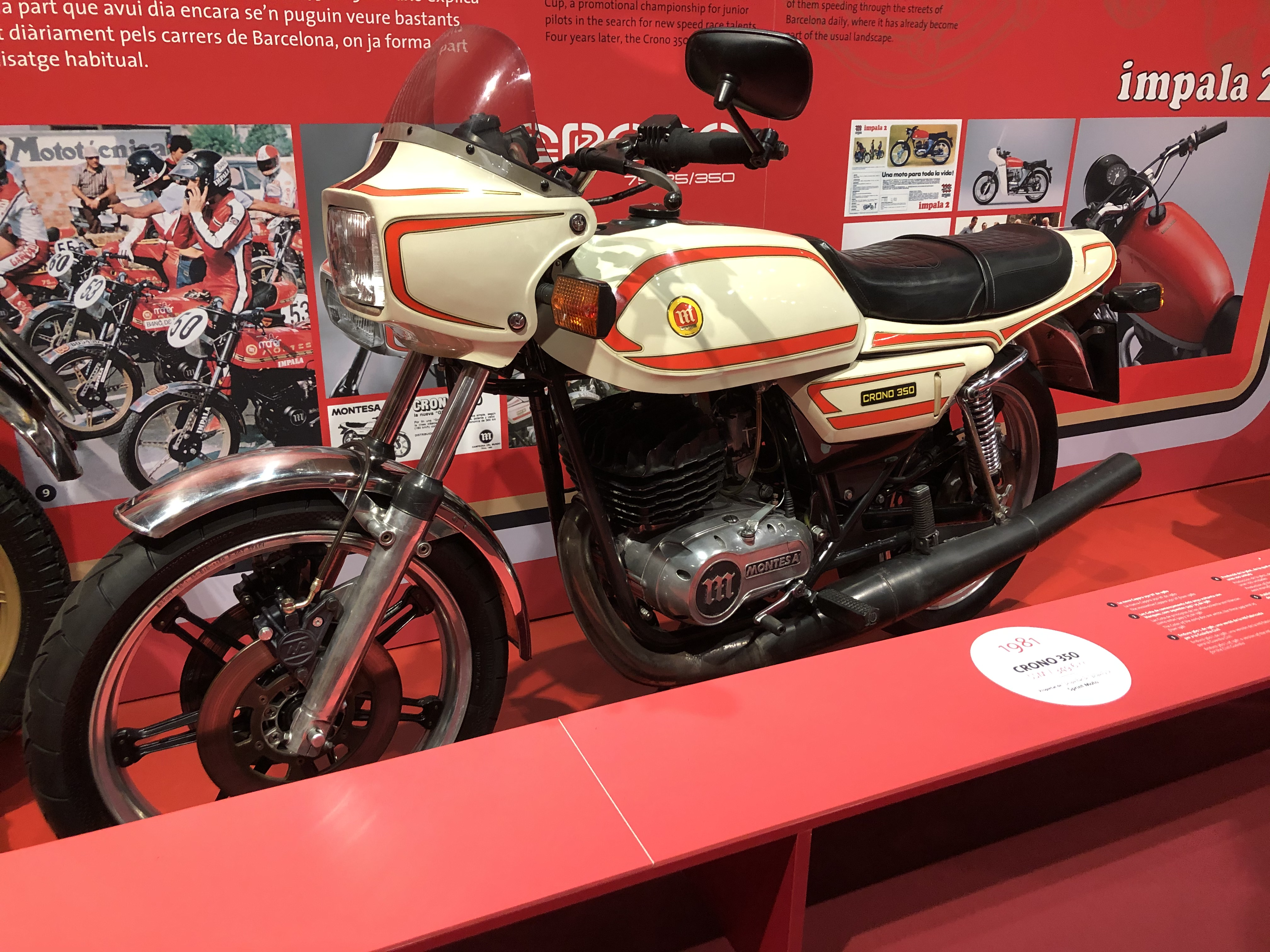 Montesa Crono 350 (1981), Mod. 55M, 349.6 cc